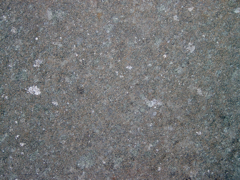 Vistdalitt (gabbro) from Vistdal in Norway.